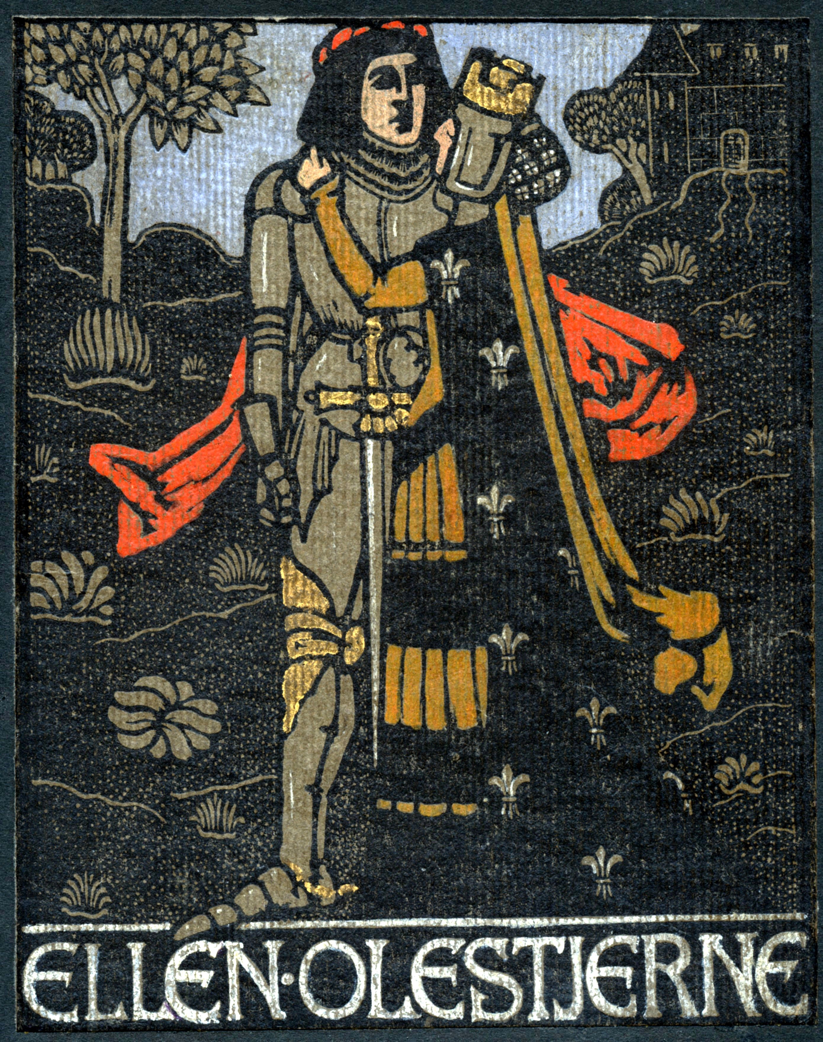 Presumably, the artist meant the knight to be a self portrait, with the lady representing the heroine of the novel